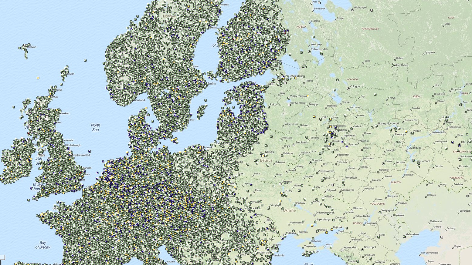 Geocaching in Europe. 2015